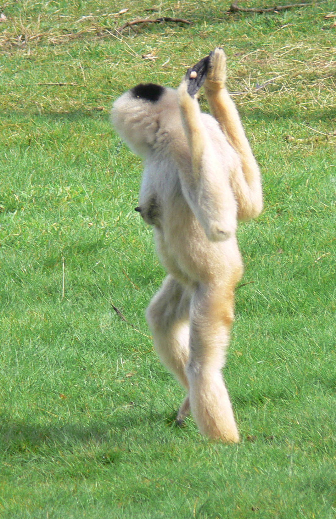 Northern white-cheeked crested gibbon (Nomascus leucogenys), female, Parc zoologique de Branferé, Bretagne sud (Morbihan).